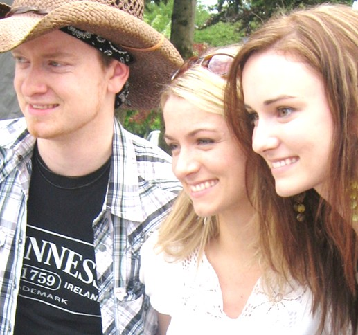 Canadian Country Music Group "The Higgins" smile for fan photos after a concert on Saturday, June 14th, 2008 in Vancouver, Canada. Siblings, they are pictured from Left to Right: John Higgins, Eileen Higgins, and Kathleen Higgins.